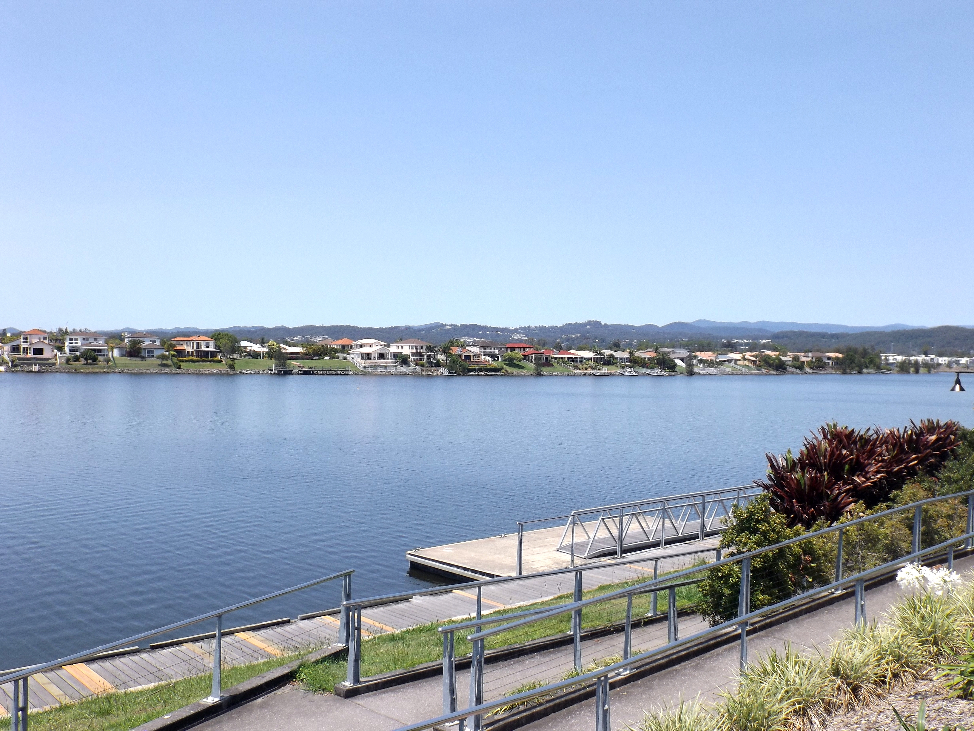 Photo of Lake Orr and houses in Varsity Lakes, Gold Coast City, Queensland, Australia.